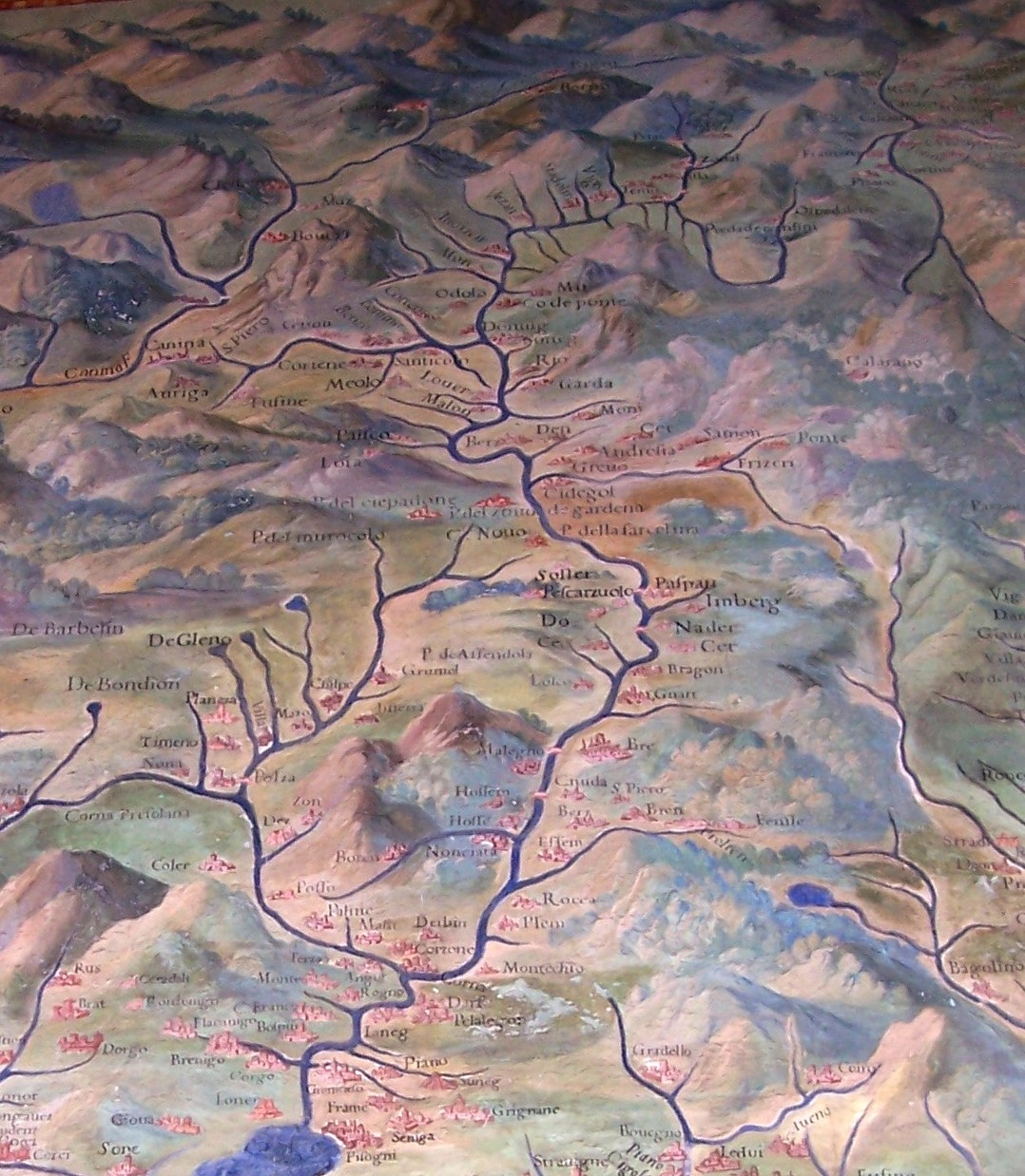 Map of Valle Camonica in 16° c. Galleria delle carte geografiche (painted from 1580 to 1585), Musei Vaticani, Roma, Italy.